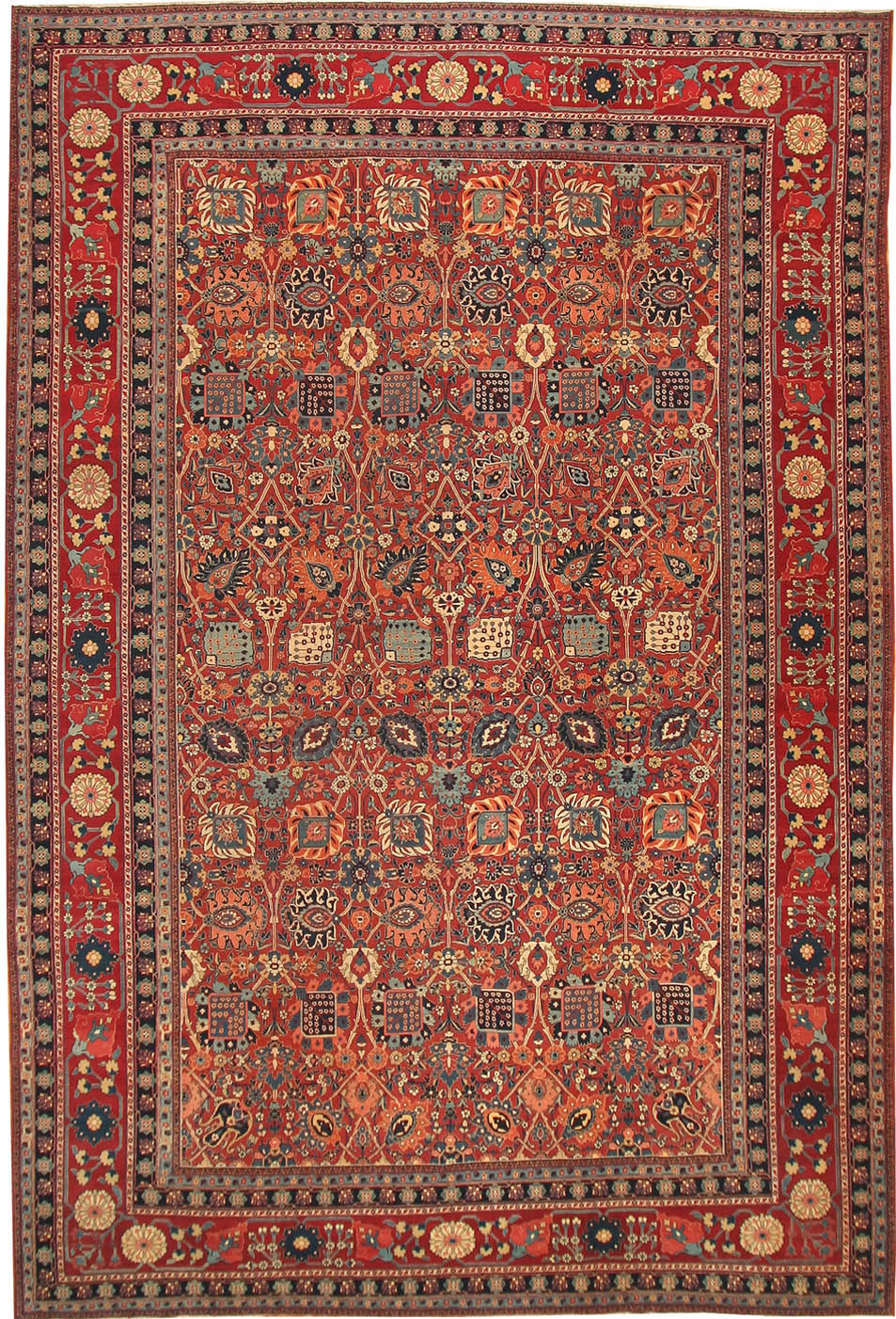 Antique Tabriz Persian Rug